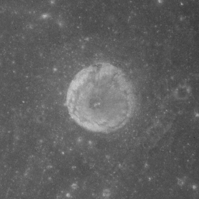 Fahrenheit crater, Mare Crisium, the moon.